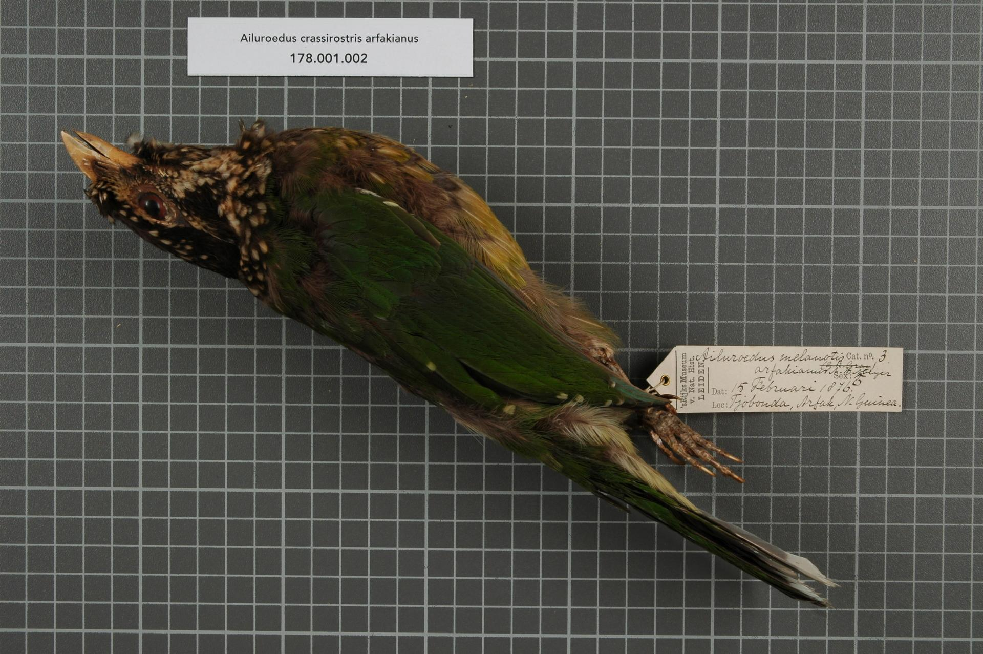 Ailuroedus crassirostris arfakianus A.B. Meyer, 1874